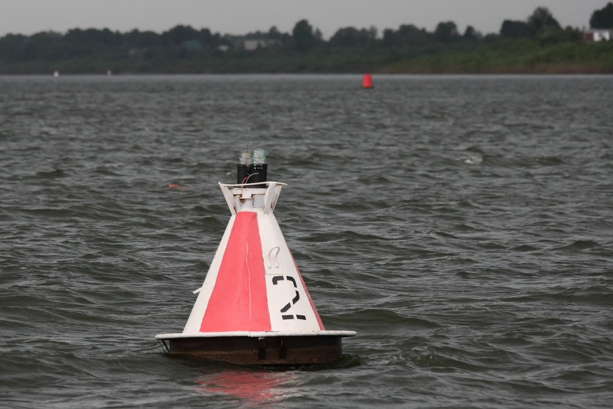 Buoy on Tom river, Tomsk, Russia